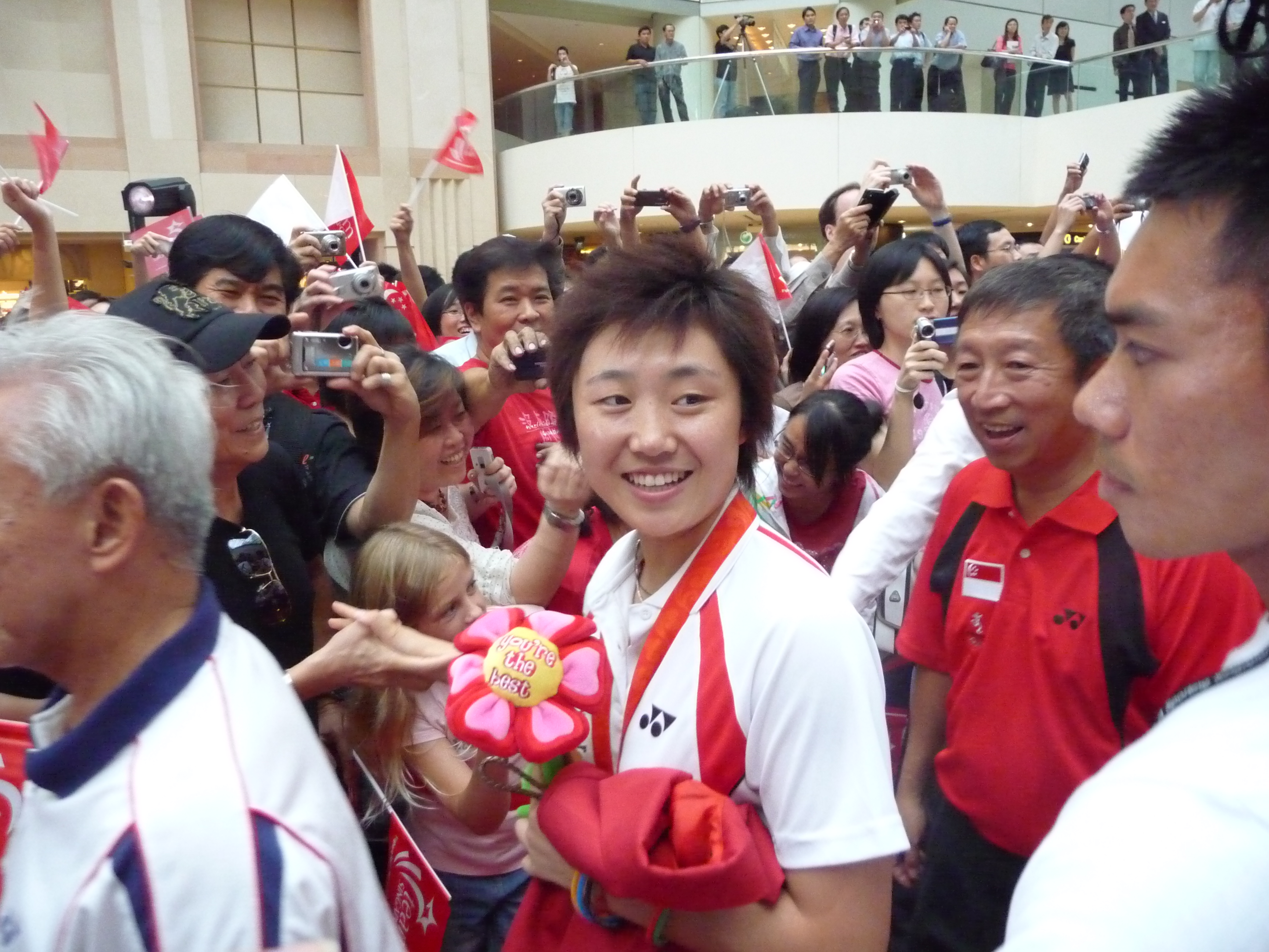 Feng Tianwei at a ceremony to welcome Team Singapore home from the 2008 Summer Olympics in Beijing. Behind her is Ng Ser Miang, Vice-President of the International Olympic Committee and Singapore National Olympic Council.